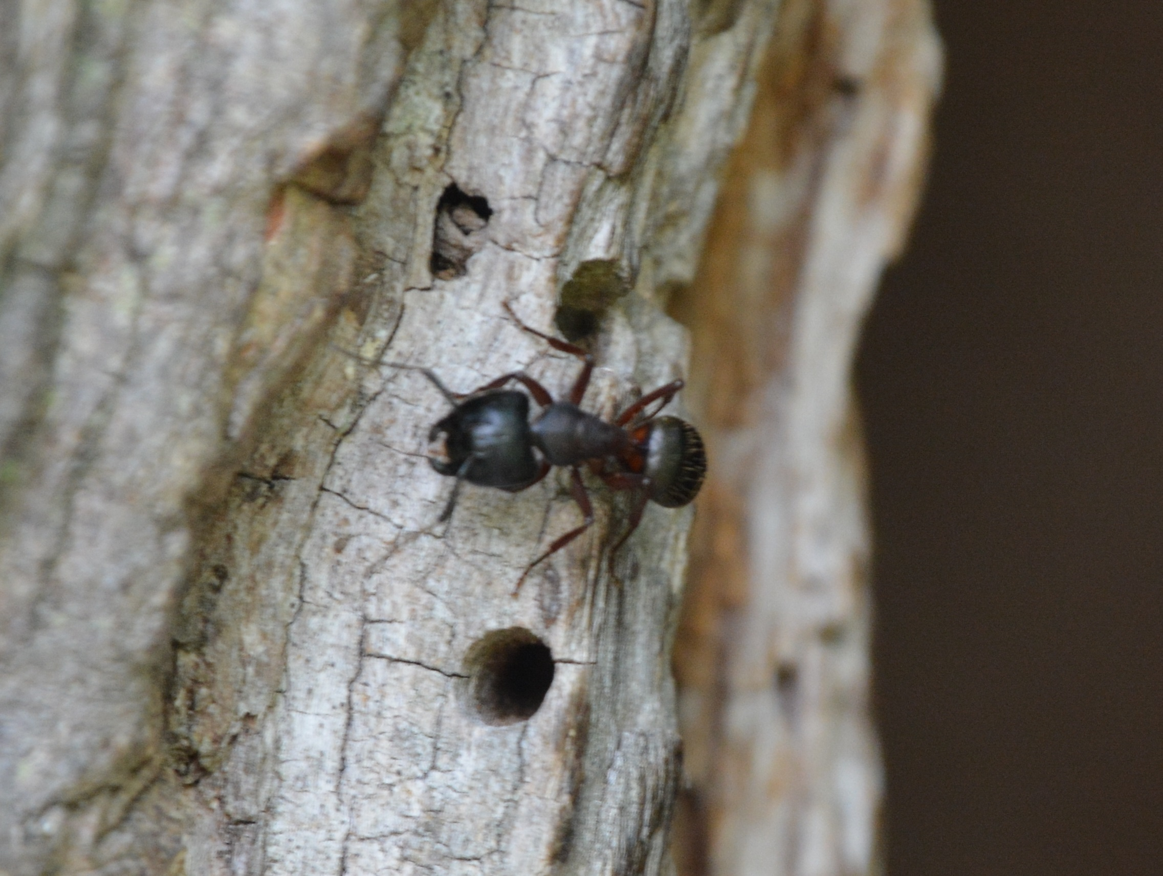 Stockmyra in it's habitat, an old oak, Drottningsholm Castle Park, Sweden